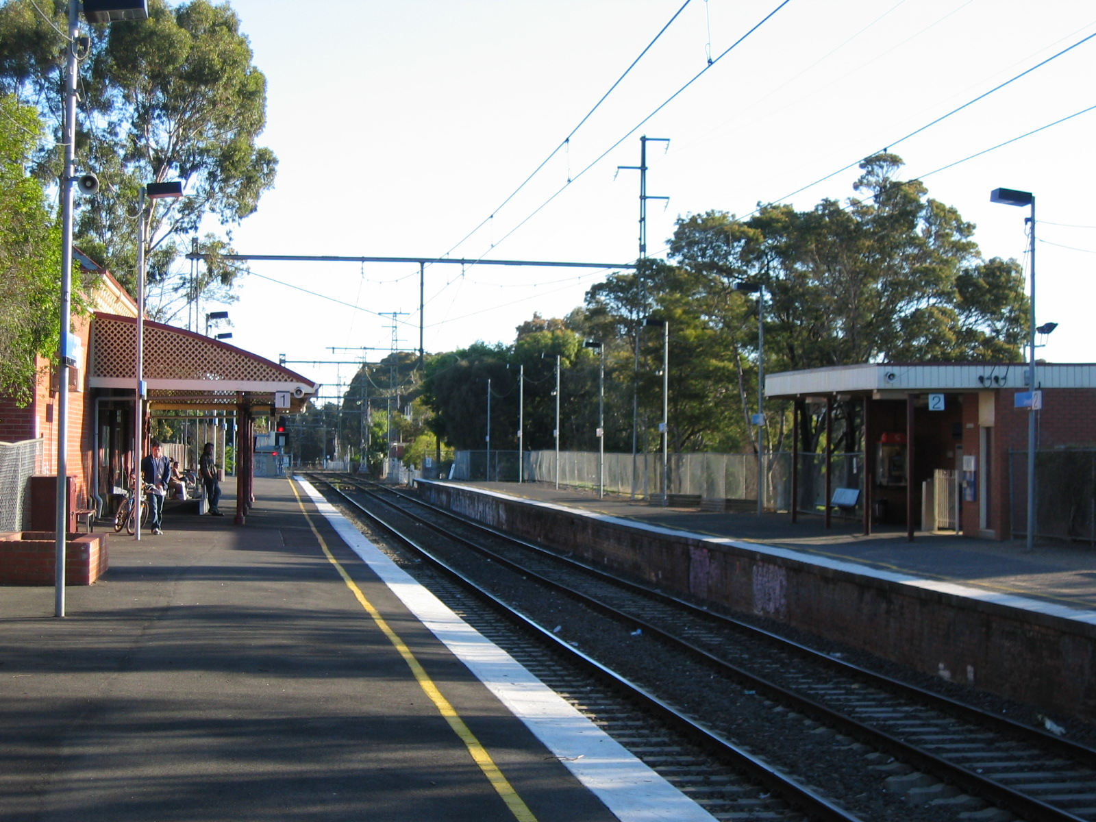 Jewell railway station, Melbourne